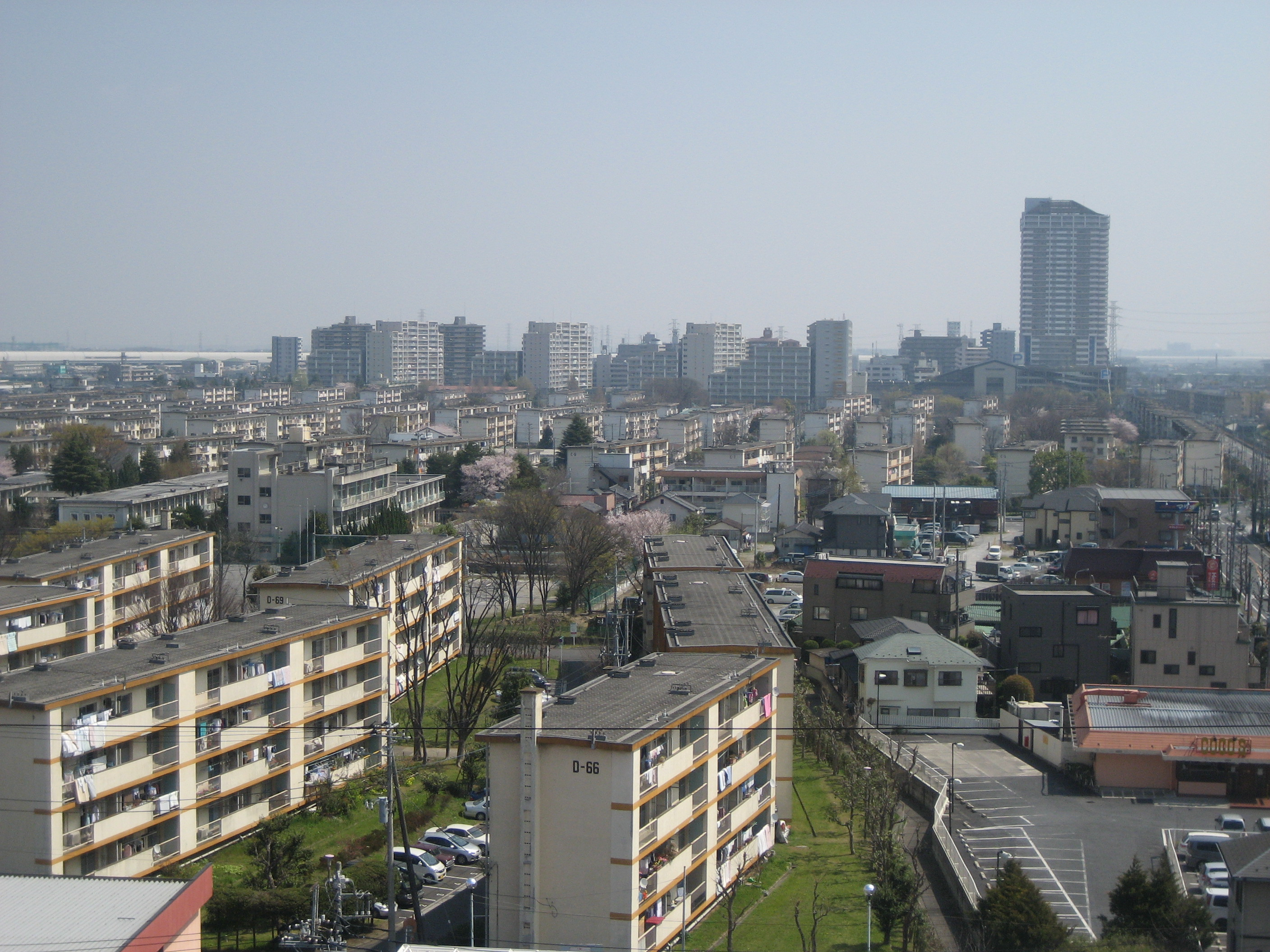 Matsubara Danchi housing complex